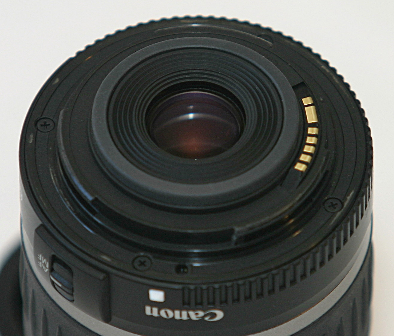 The Canon EF-S lens mount taken from the Canon EF-S 18-55mm lens. Comparing this lens mount to the Canon EF lens mount the noticeable differences are the extra rubber ring set farther back from the mount and that the first lens element is noticeably closer to film/sensor of the camera.